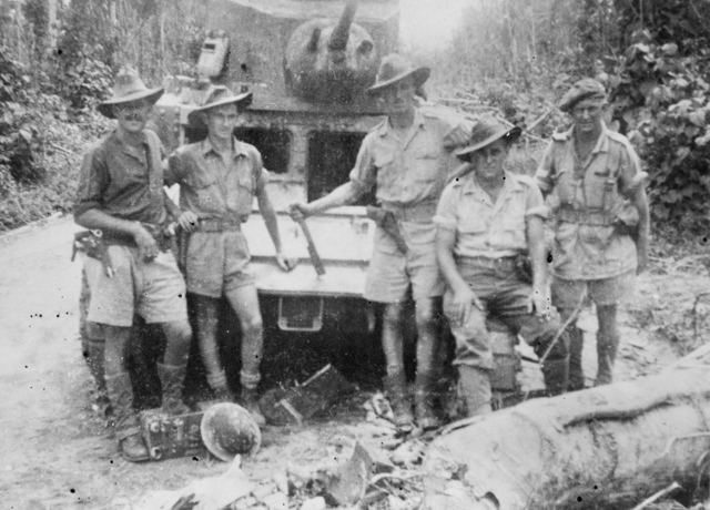 Group portrait of five Australian soldiers in front of an M3 Stuart Tank at Sanananda, New Guinea. Seated on the tank (second from right) is NX49665 Lieutenant Max Schoeffel, 2/6 Australian Armoured Regiment. The others are unidentified. Collection Order a copy Ordering help Related information Conflict Second World War, 1939-1945